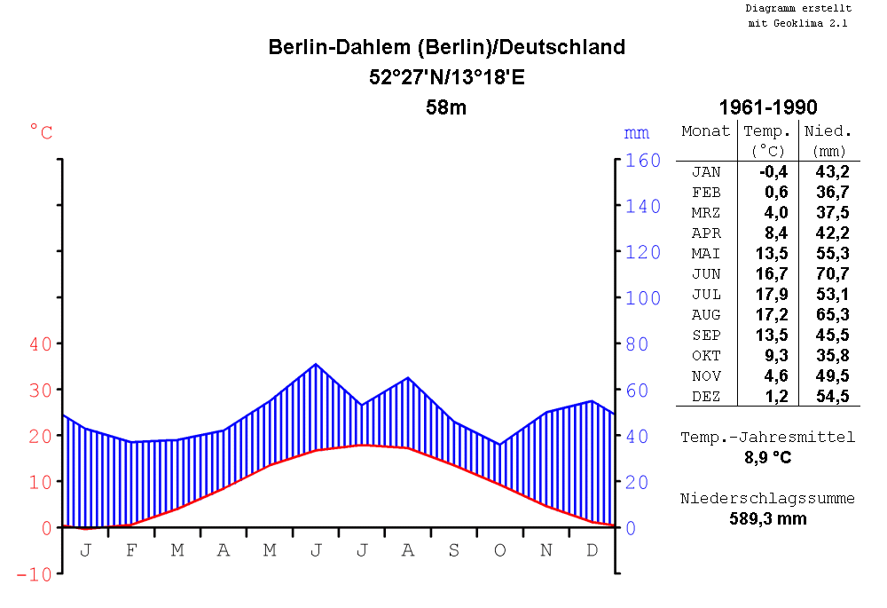 climate chart of Berlin-Dahlem, Berlin, Germany, for the period of time from 1961 to 1990, in the format by Walter and Lieth, metric, °Celsius and millimeters, chart made with Geoklima 2.1, label in German